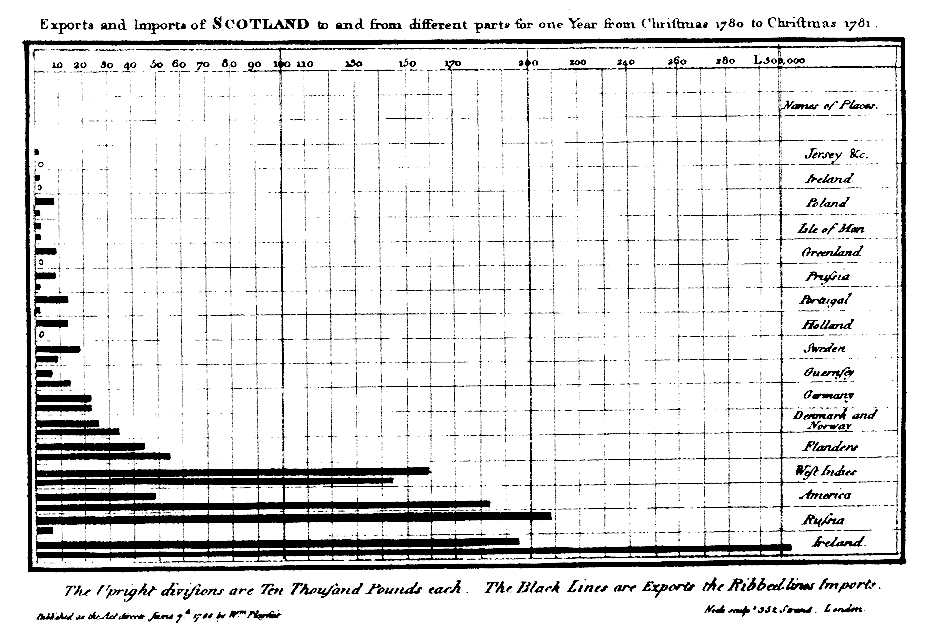 Exports and Imports of Scotland to and from different parts for one Year from Christmas 1780 to Christmas 1781